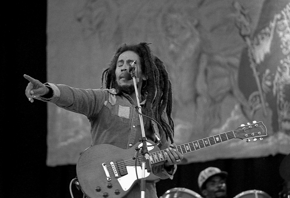 Bob Marley performing at Dalymount Park, on 6 July 1980.